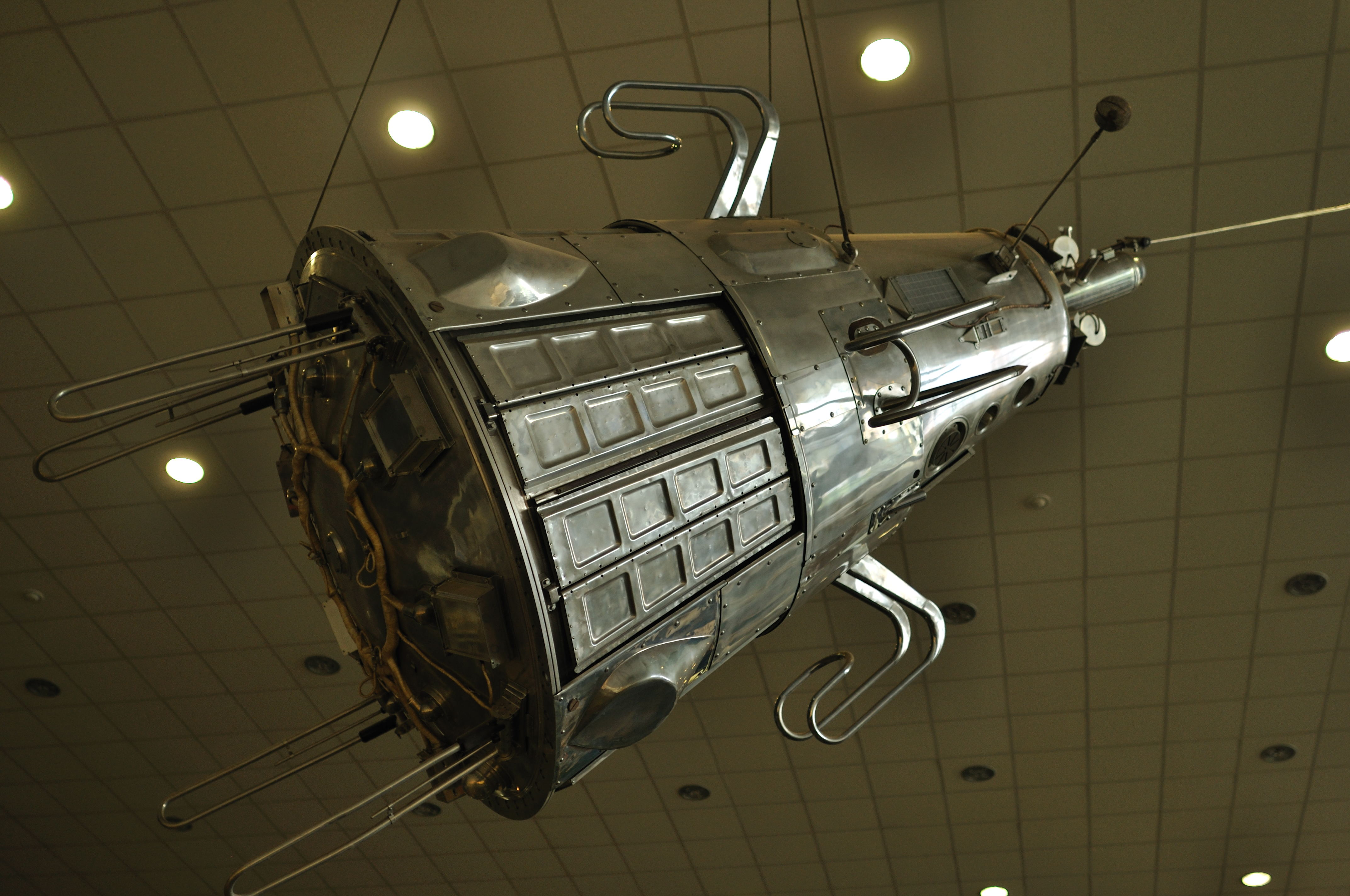 Sputnik 3 in the Konstantin E. Tsiolkovsky State Museum of the History of Cosmonautics in Kaluga.